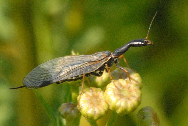 Phaeostigma notata from Commanster, Belgian High Ardennes .